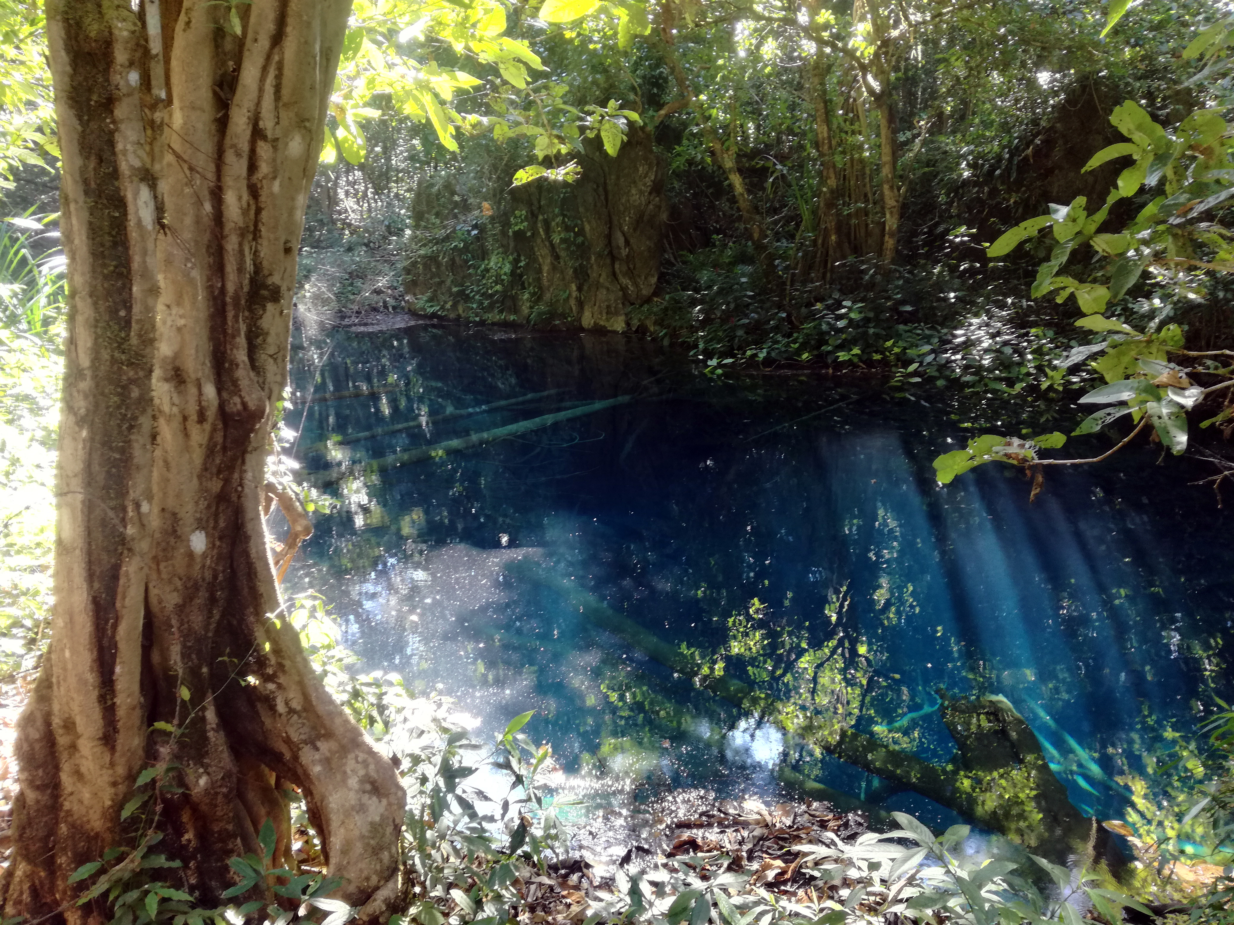 Mya Thabeik Blue Lake is located in Ywar Ngan Township, Shan State, Myanmar